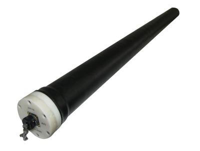 INDUCTION MAGNETOMETER FOR GEOPHYSICAL APPLICATIONS LEMI-120